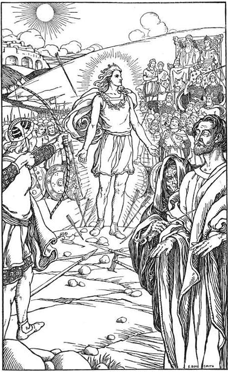 "Each arrow overshot his head" by Elmer Boyd Smith. Allowing his fellow gods to test his new found invincibility, the shining god Baldr is attacked by his fellow gods who make a game of it. In the background, the god Odin and his wife, the goddess Frigg, sit enthroned. In the foreground, the disguised Loki gives Baldr's blind brother Höðr an arrow affixed with mistletoe (the one thing that can harm Baldr), which results in Baldr's death.